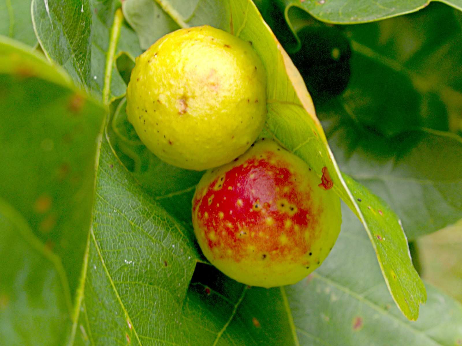 Gall of Cynips quercusfolii. Location: Münster, NRW, Germany